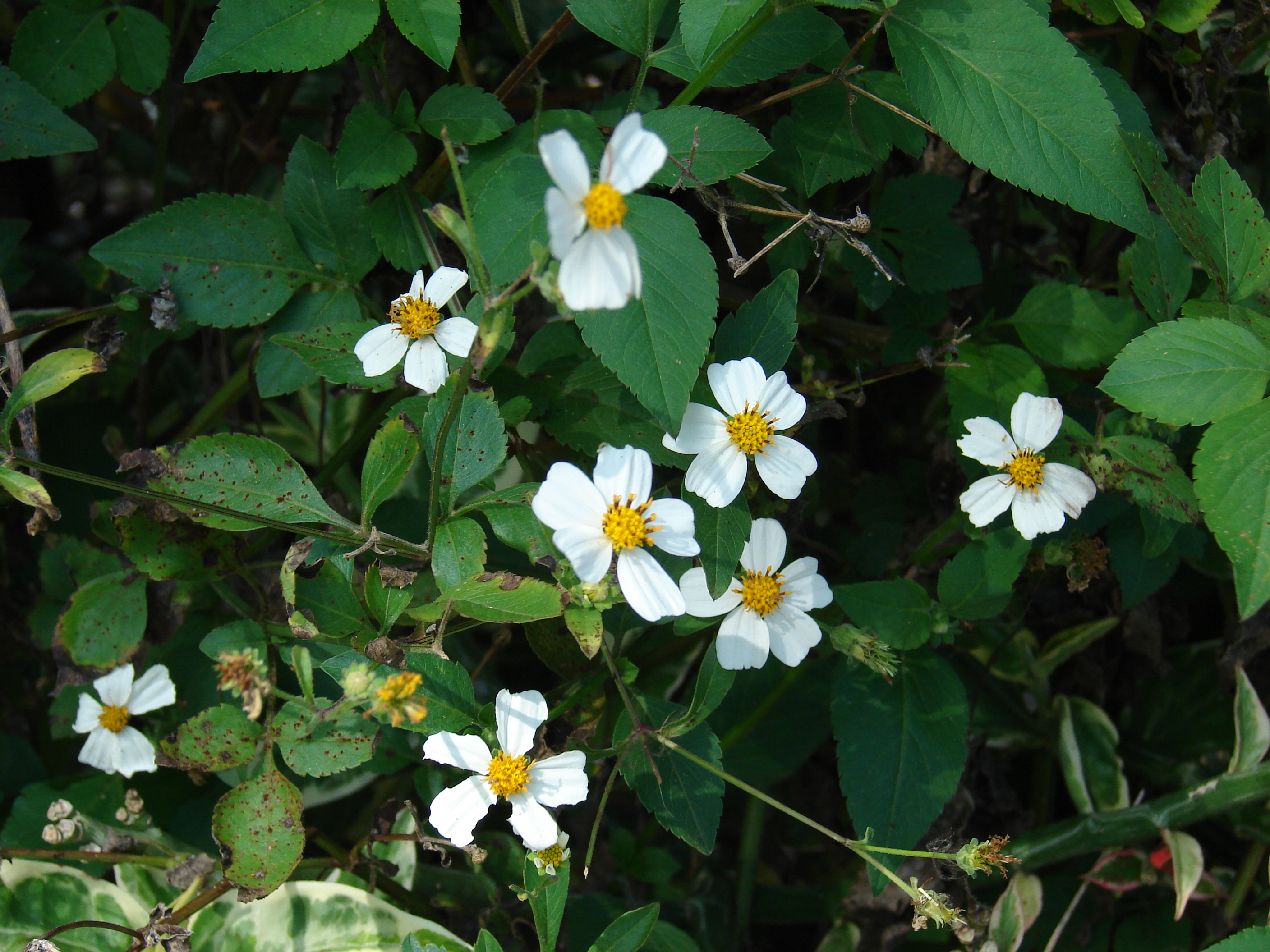 Bidens alba var. radiata (flowers). Location: Midway Atoll, Halsey Dr around residences Sand Island